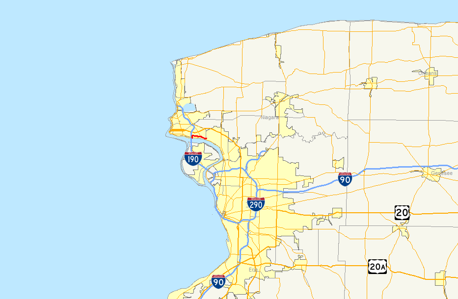 Map of LaSalle Expressway